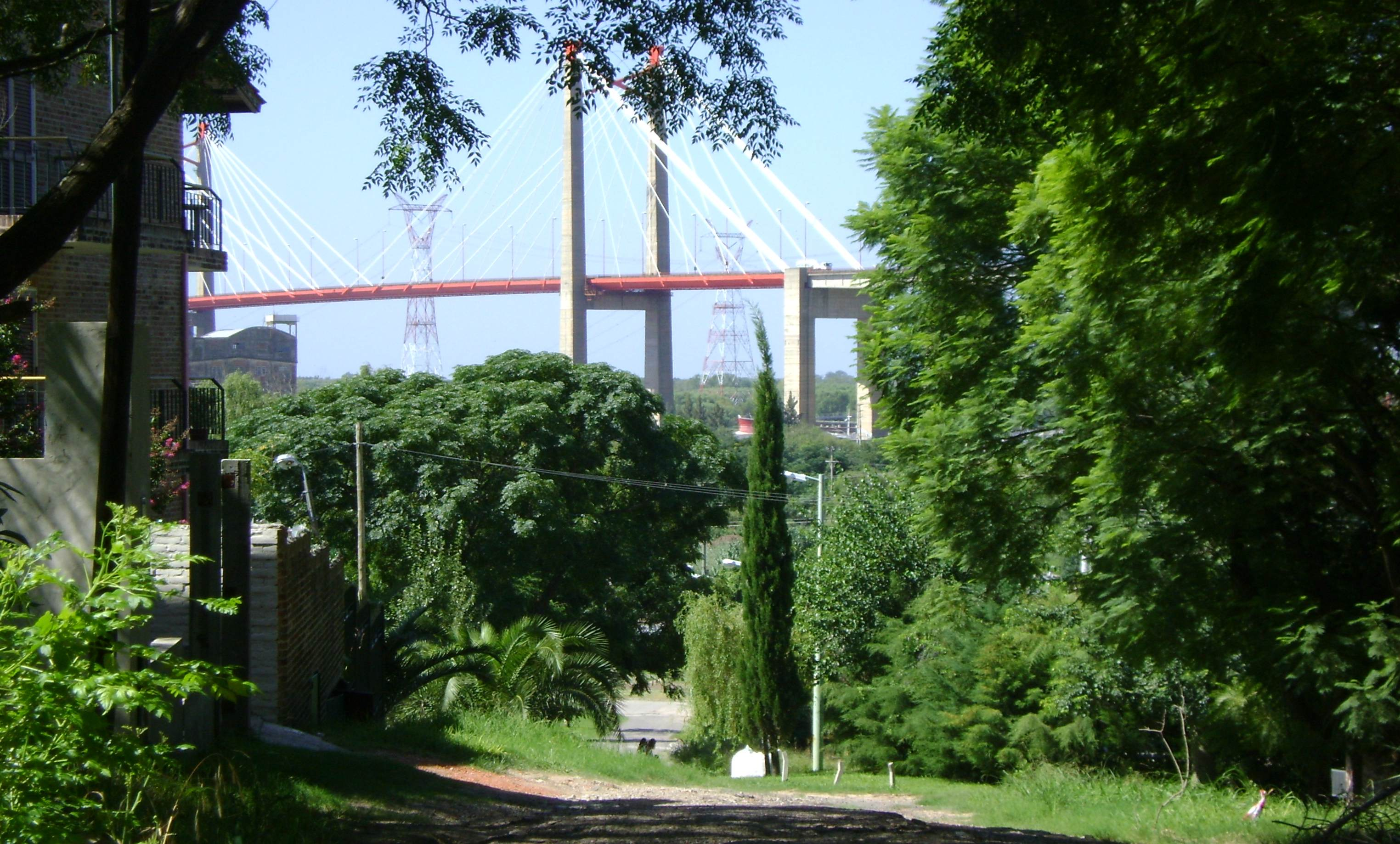 Zárate Brazo Largo Bridge.